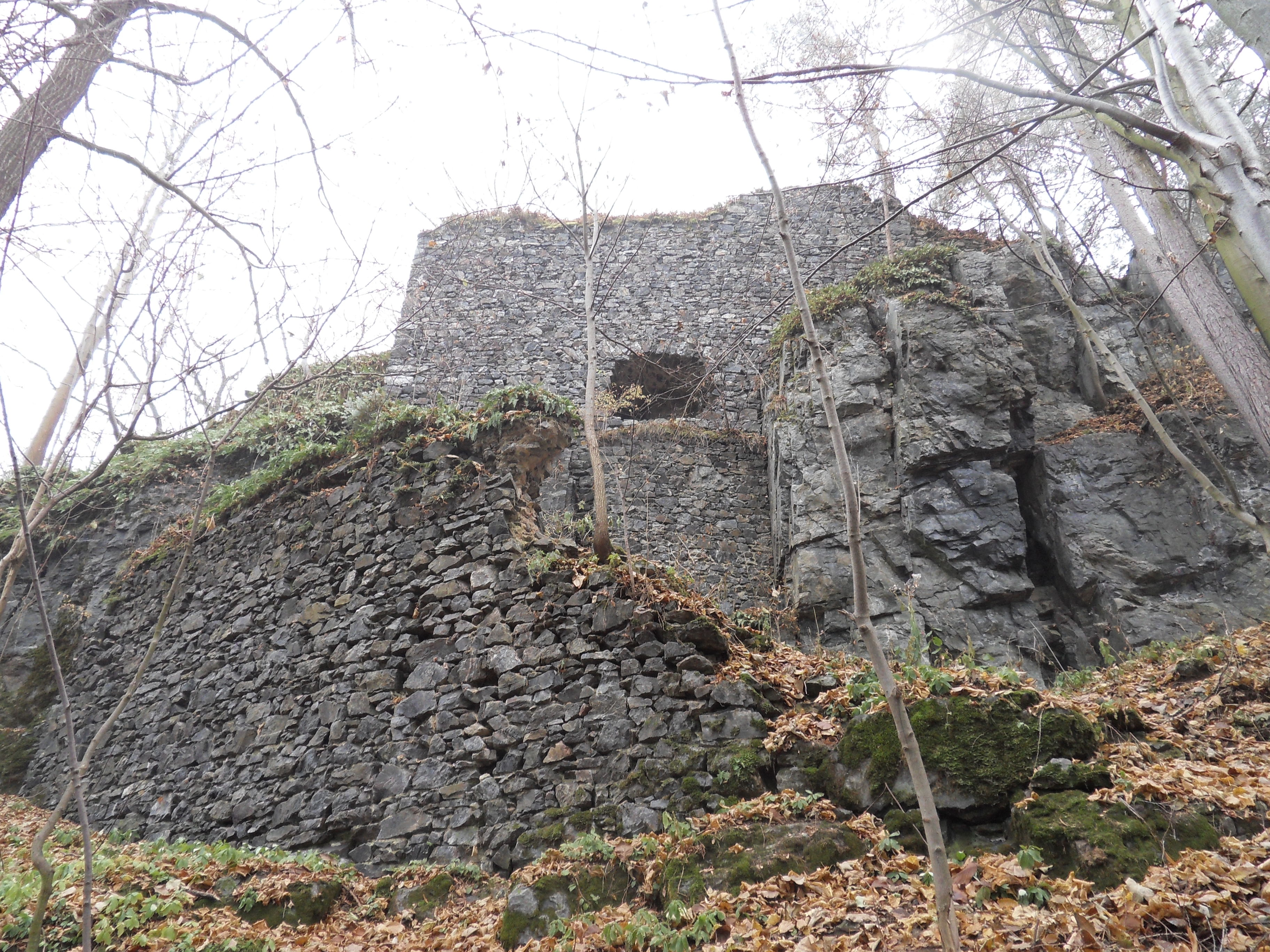 Castle Skála (Ruins of castle in Plzeň-South District ). View from the northwest to the cental part of the castle.